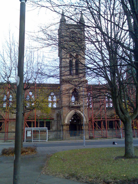 Dumbarton Academy on Church Street, Dumbarton Only the façade remains, hence the blue sky showing through the windows. The tower still dominates the Dumbarton skyline today. October 2009, Robert Henry adds: In more recent times it was the Burgh Hall. A fire badly gutted the building in the 1970s leaving a shell which was recently pulled down leaving the facing supported by the steelwork seen. This has been done to preserve the façade while a completely new interior is built - sometime, perhaps, maybe. Some time after the fire, a new purpose-built Burgh Hall was constructed to the rear (east) side of the building for local municipal purposes.